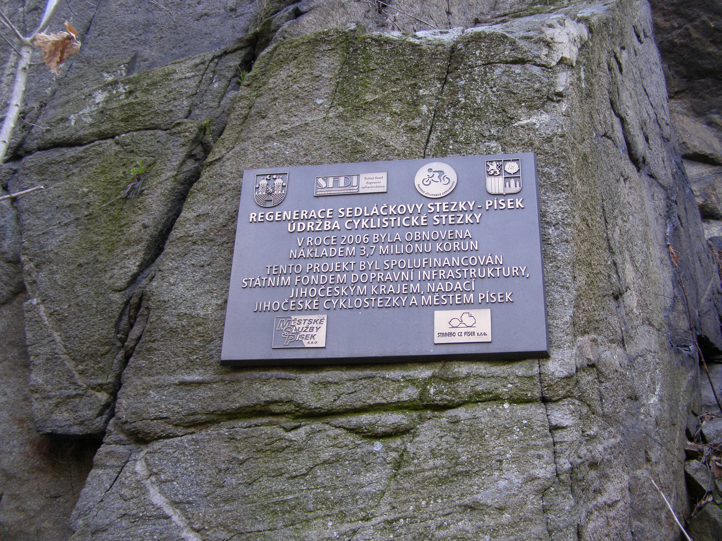 Information signs (of regeneration of the trail in 2006) on a rock at the start of "Sedláčkova stezka" near the town Pisek, South Bohemia, Czech Republic